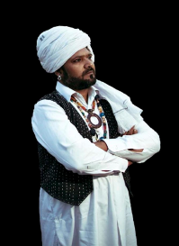 Magician Ishamuddin Khan is a Indian Traditional. Who Invented The Great Indian Rope Trick in 1995.